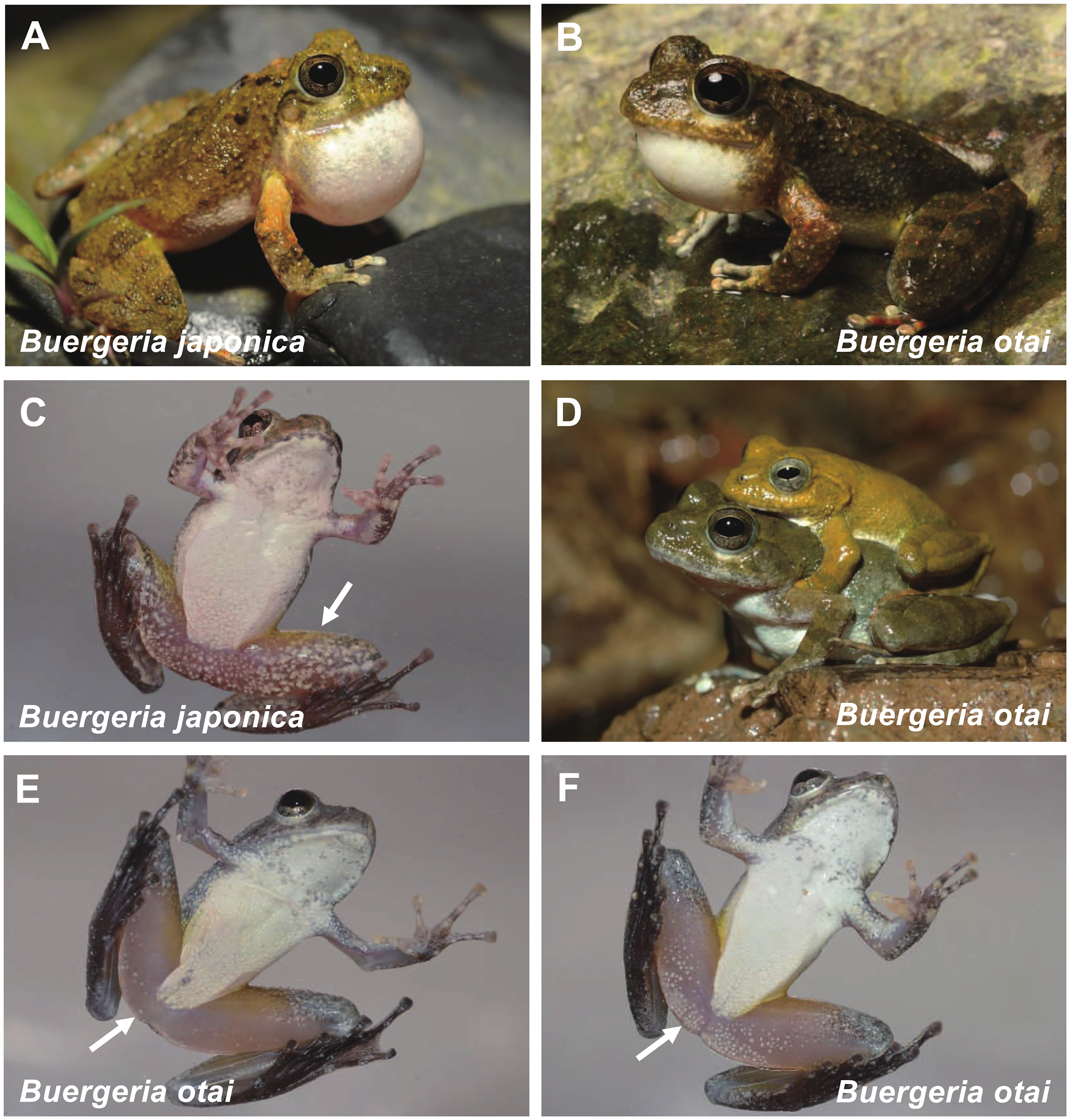 Comparison of Buergeria japonica and Buergeria otai